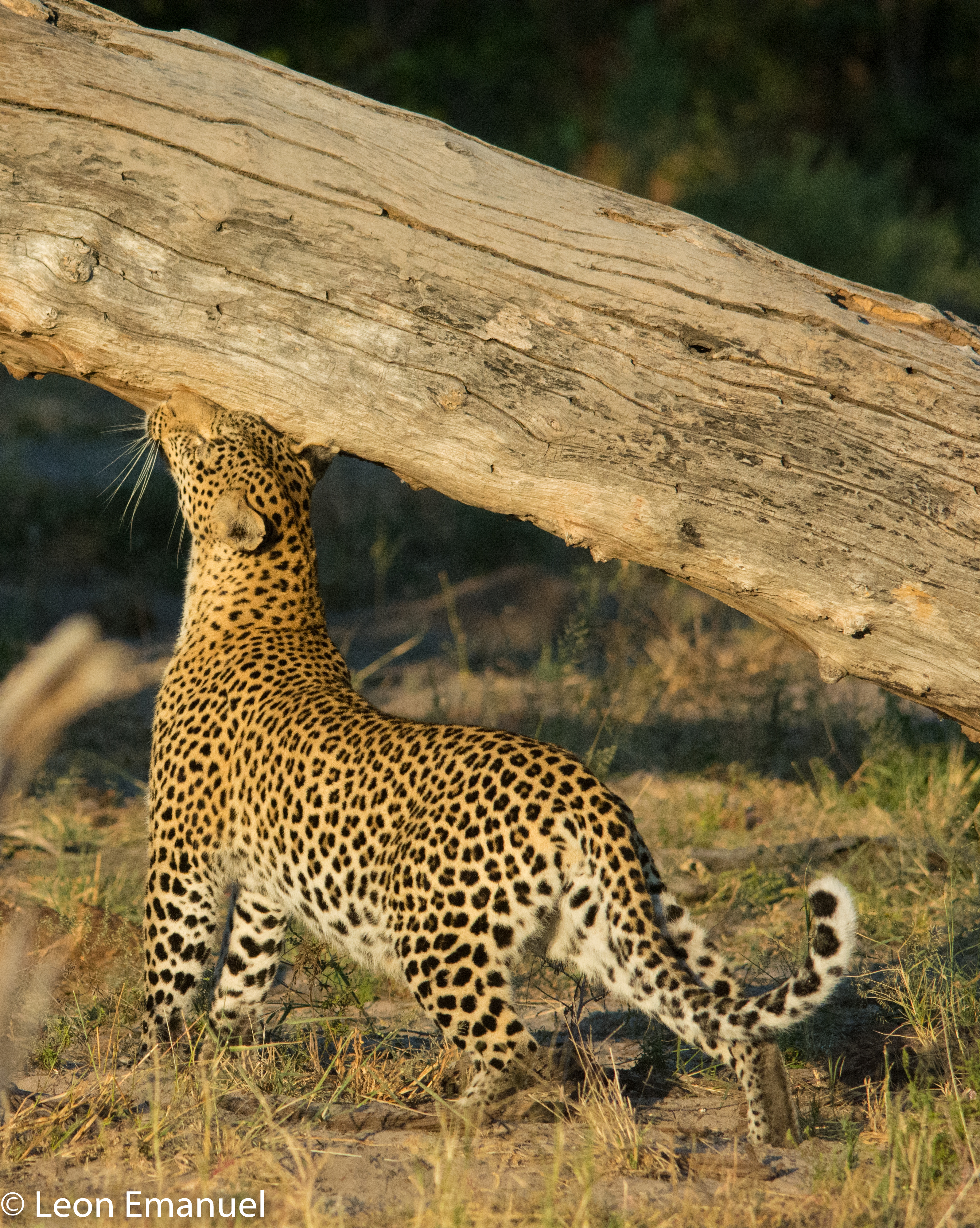 leopard okavango delta